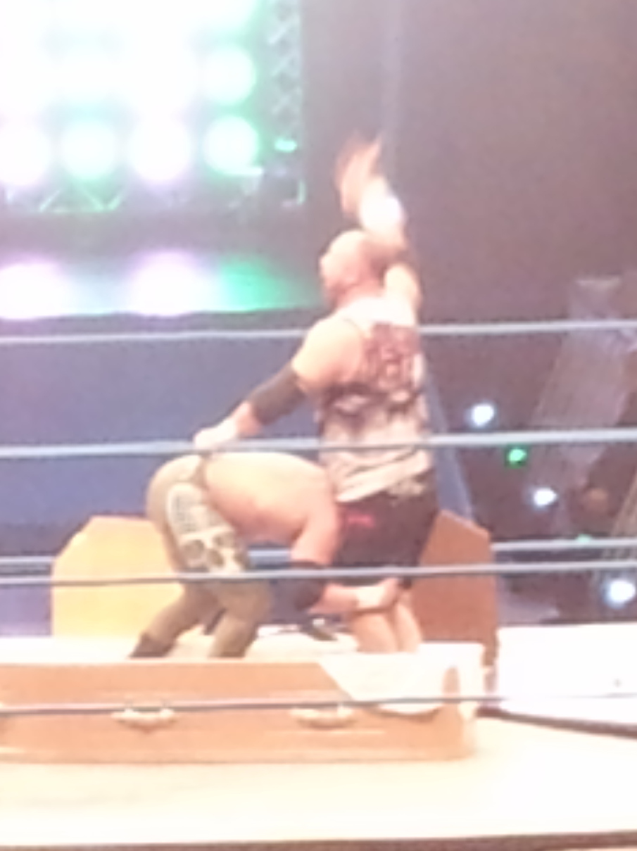 TNA Maximum Impact VI Tour – 31st January 2014 – Phones 4 U Arena, Manchester